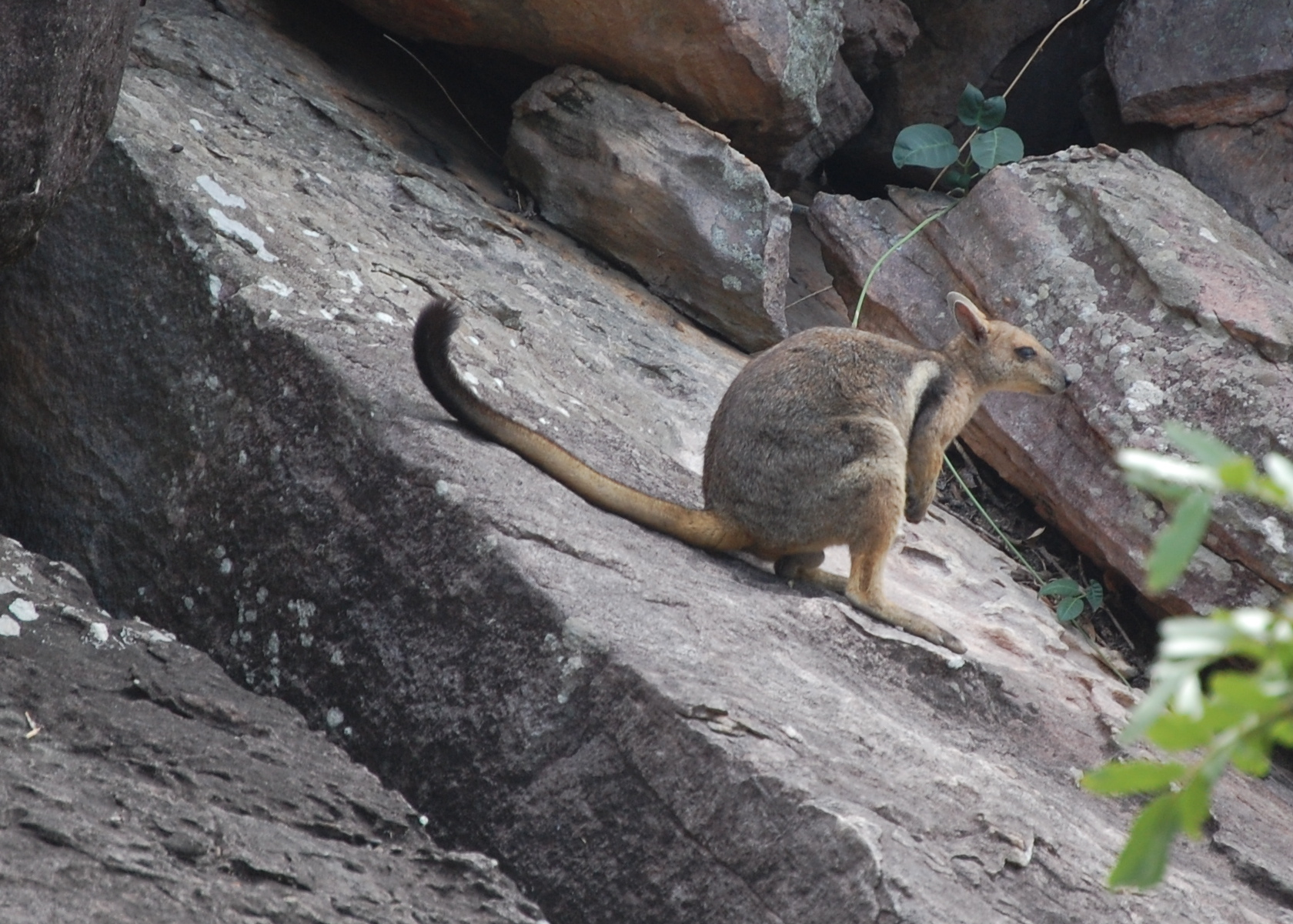 Short-eared rock-wallaby (Petrogale brachyotis) at Kakadu National Park